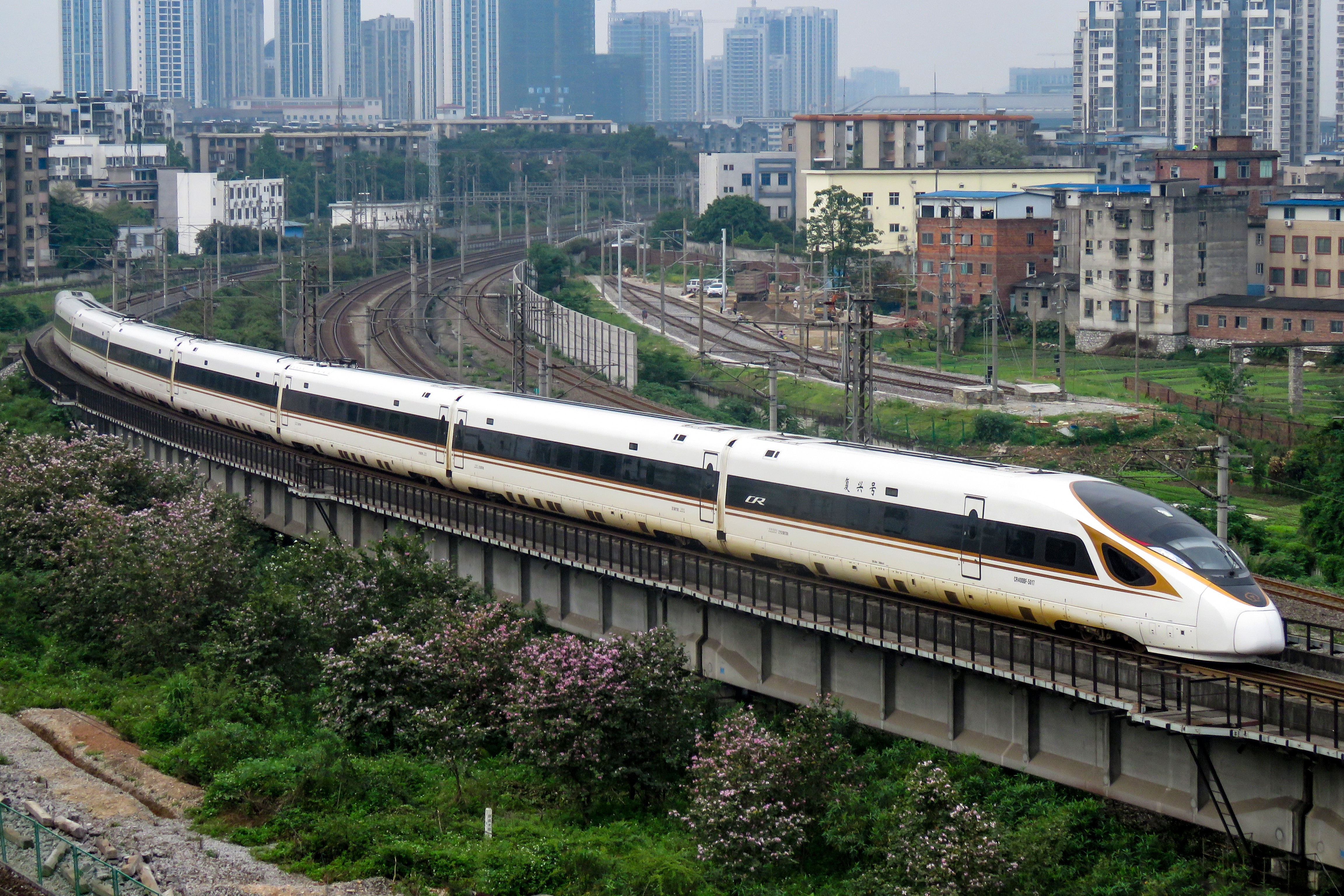 G2344 from Nanning East to Ningbo. This one, having been switched to CR400BF on 5 January 2019, arrives at 22:33 after more than 25 stops... Yes, I had a ride on this 5017 before!